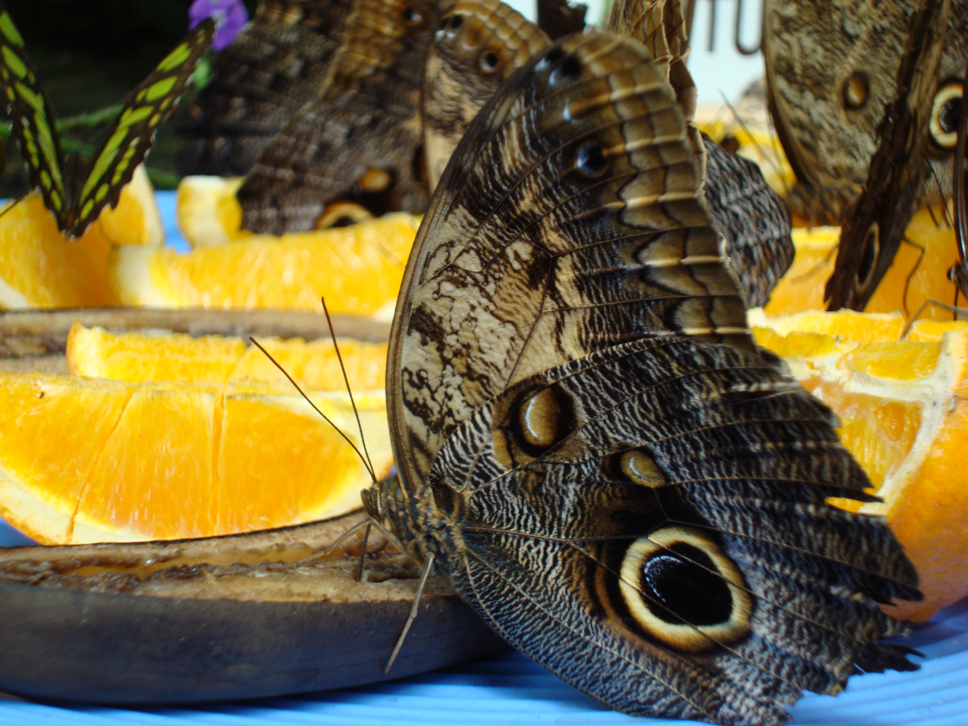 Owl (Caligo memnon) butterflies eating oranges and bananas at the Niagara Parks Butterfly Conservatory, Niagara Falls, Ontario, Canada